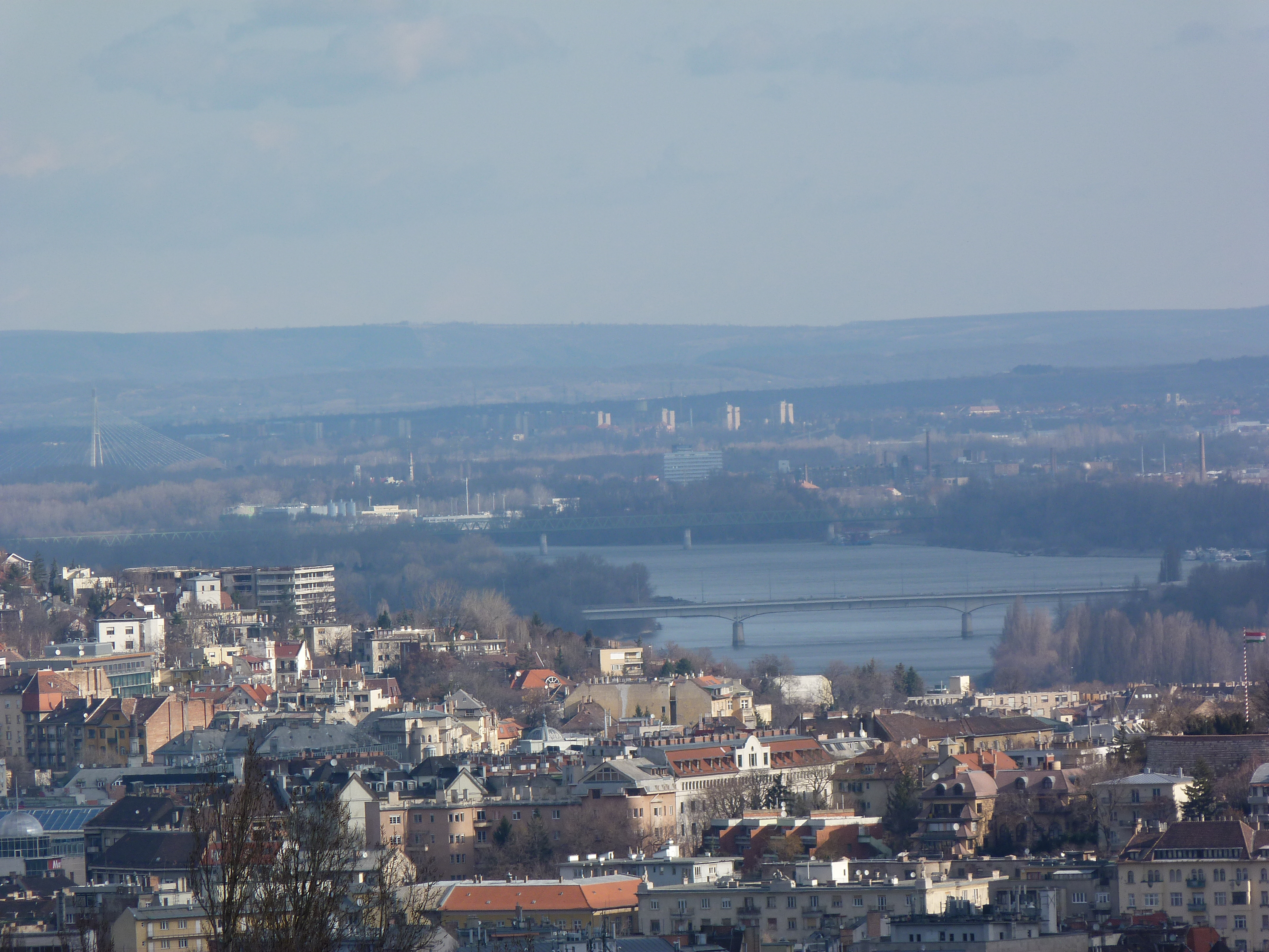 The Árpád bridge from Sashegy ("Eaglehill")